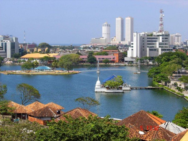 The Colombo World Trade Center in Sri Lanka.